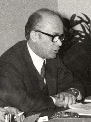 Inventarski broj: 1973 511 152